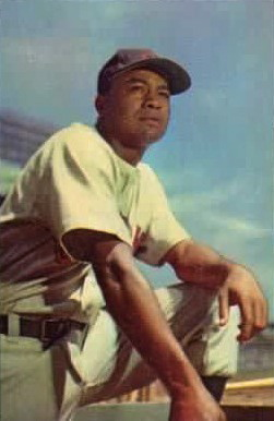 Cleveland Indians centerfielder Larry Doby.